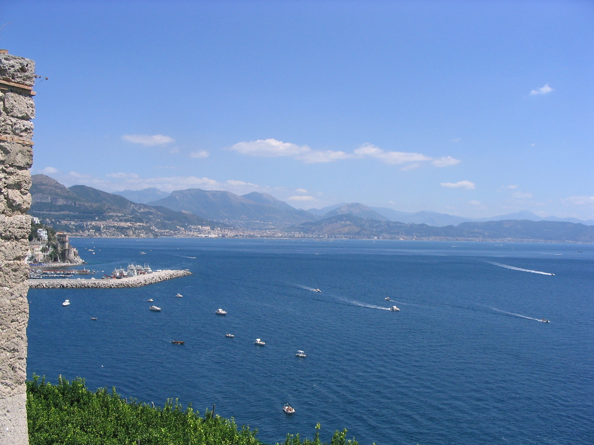 Salerno as seen from the Amalfitan Coast